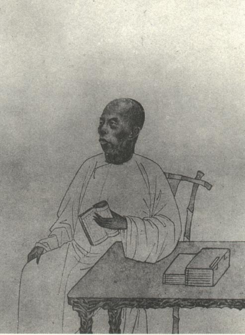 ZOU Boqi